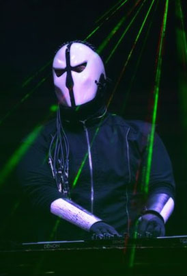 Picture taken at a live performance of Zardonic in Guatemala.